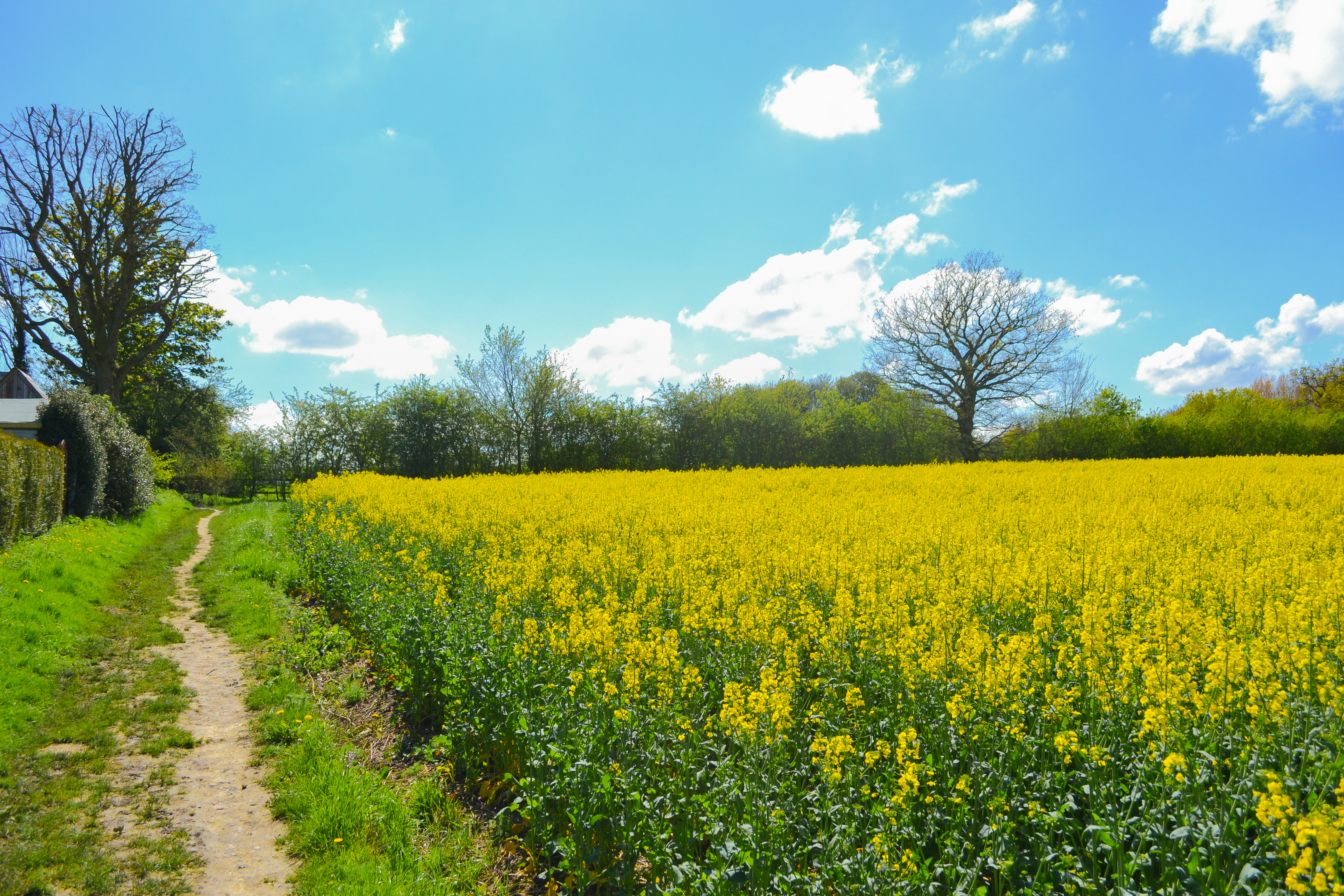 Canola fields in Shenfield, Essex